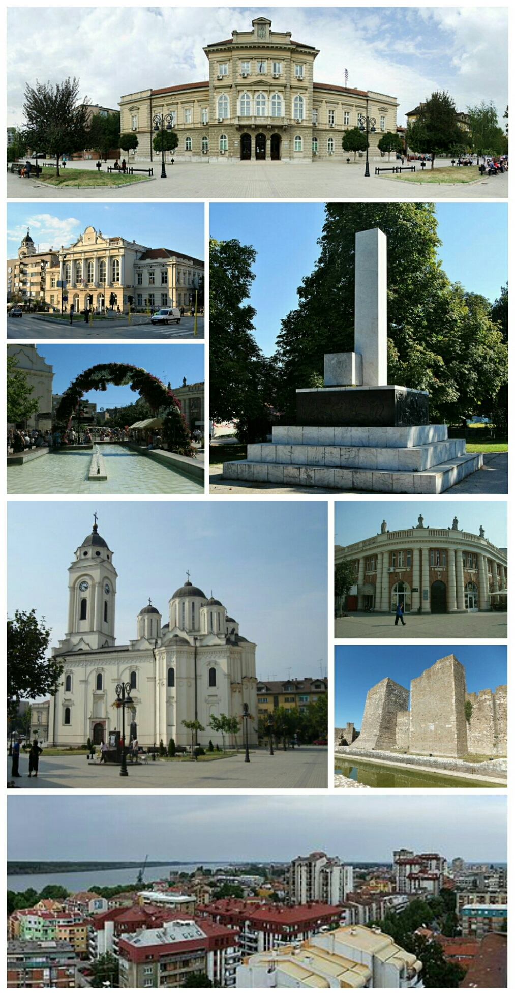 Smederevo- photomontage (Courthouse in Smederevo, Gymnasium in Smederevo, Fountain at the Republic Square, A monument to the victims of the explosion of ammunition in the Smederevo Fortress, Church of St. George in Smederevo, Town hall, Smederevo fortress, Panoramic image of Smederevo)